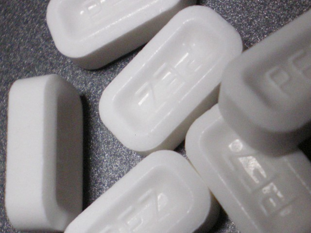 PEZ candies.